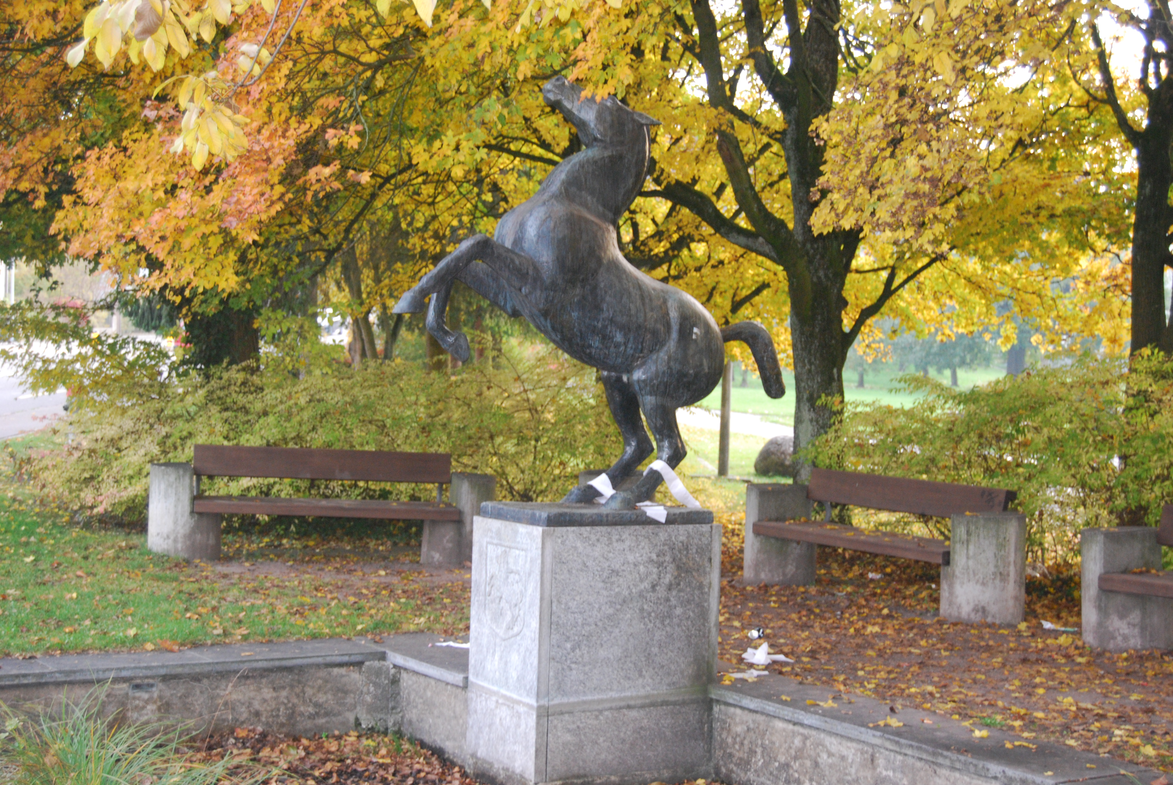 Horse sculpture at the village park of Seuzach, canton of Zürich, SwitzerlandEsperanto: Ĉevalskulpturo en la vilaĝa parko de Seuzach, Kantono Zuriko, Svislando